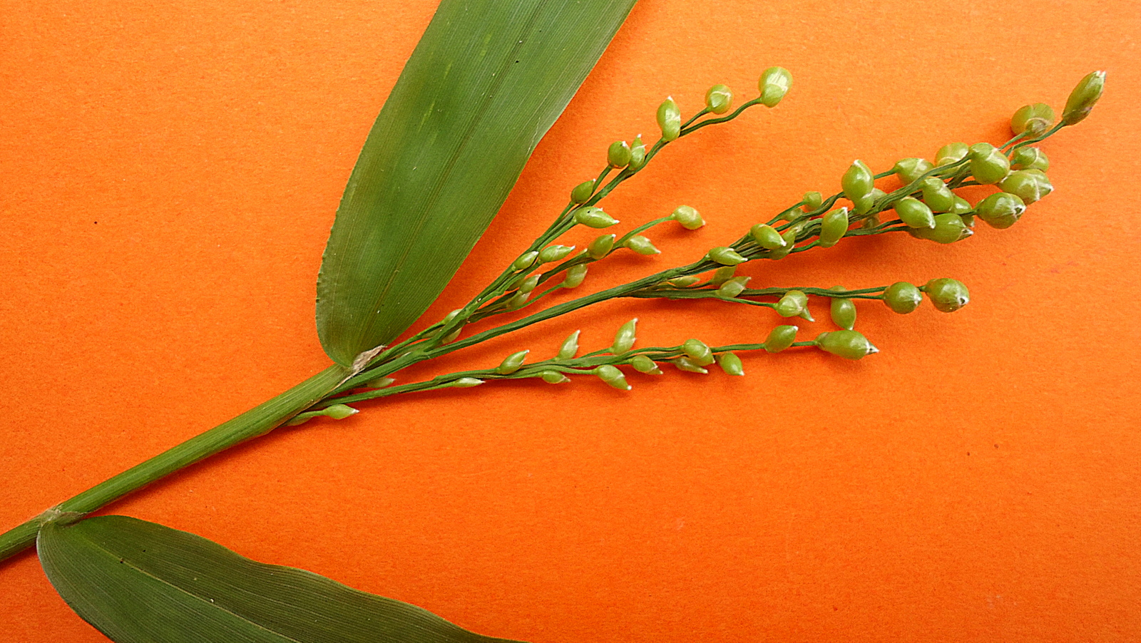 Lasiacis ligulata Hitahc. & Chase, Poaceae, Atlantic forest, northeastern Bahia, Brazil